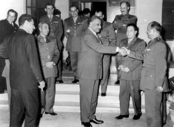 Egyptian President Gamal Abdel Nasser meeting Syrian delegation pushing for unity between Egypt and Syria. Nasser is shaking hands with Afif Bizri. To the left is Abdel Hakim Amer and next to him is Amin al-Hafiz